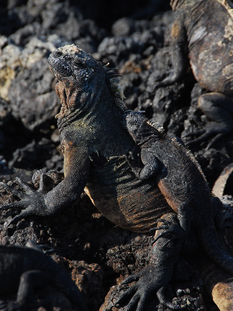 Baby Marine Iguana Rides Another at Galápagos Islands